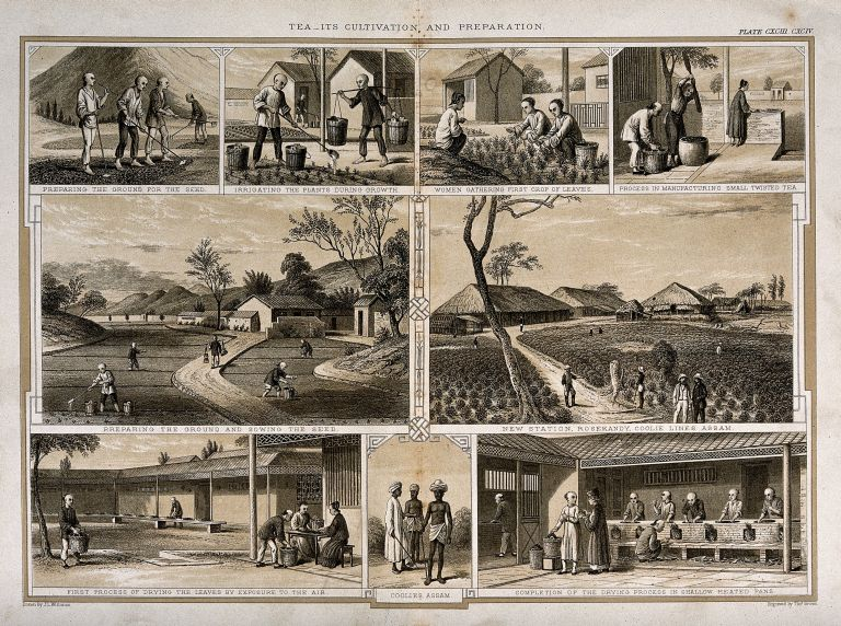 This engraving shows the different stages in the process of making tea. Tea bushes are carefully pruned and plucked to maintain the correct density, encouraging new leaf-bearing shots. Here you can see the two drying stages of the process, drying stops the fermentation process and removes the last moisture so the tea will not spoil during transit.